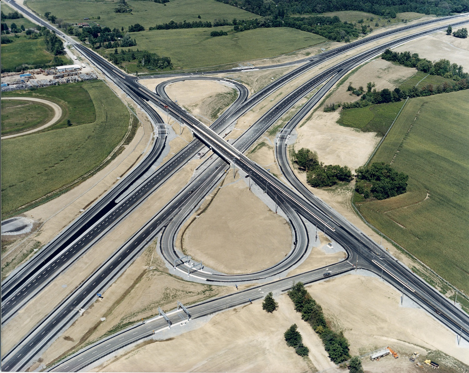 HWY407 and York Durham Line interchange. Two months after opening in June 2001. Ontario.